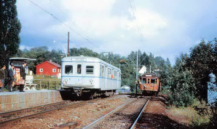 T1 prototyp metro car (later T 451) of Oslo Sporveier at Sørbyhaugen / Westinghouse-car from company Holmenkollbanen, after rebuilding to pay as yo pass.